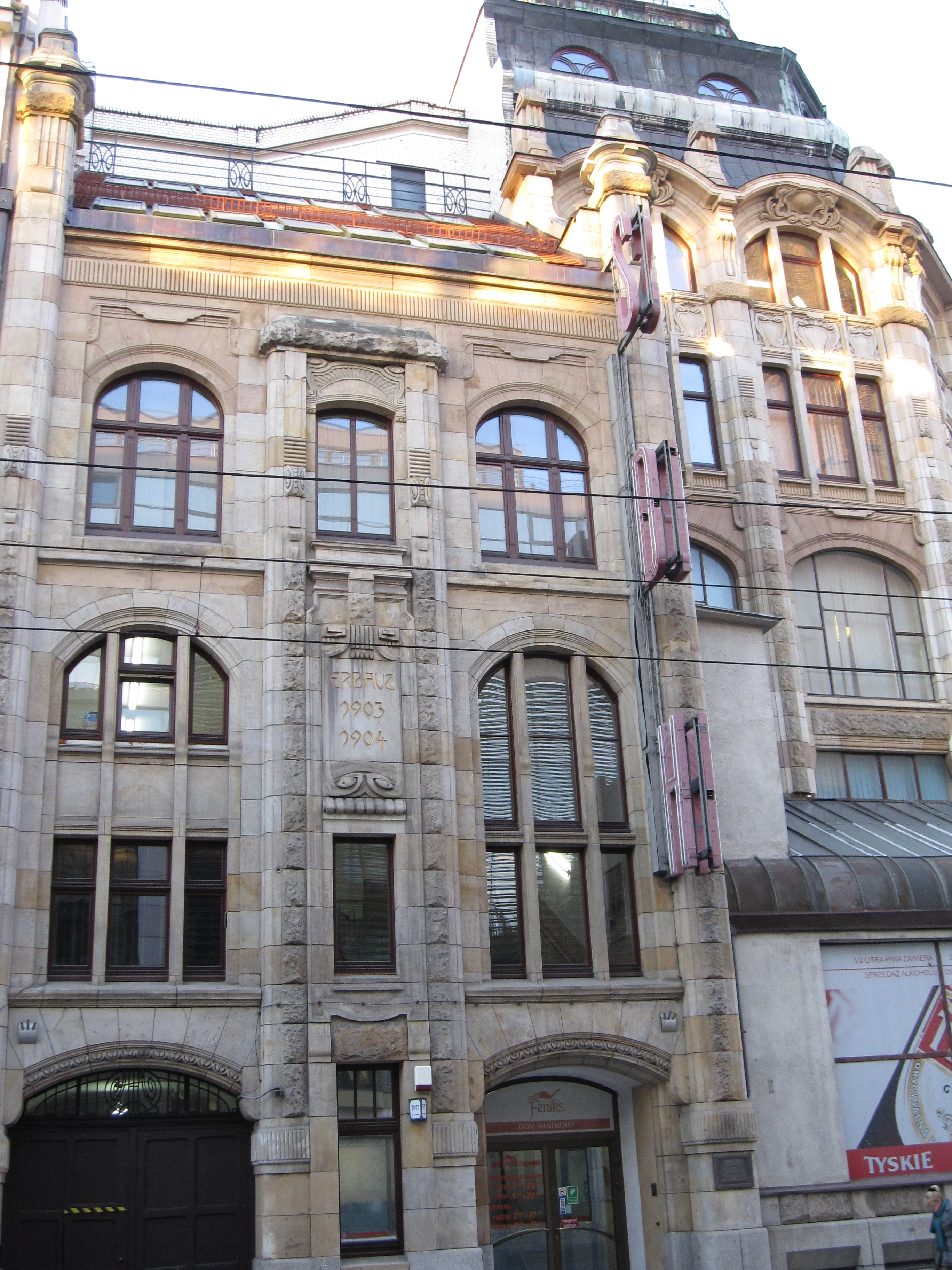 This is a view of the graceful Art Nouveau lettering identifying the construction date of the Barasch Brothers department store in Wroclaw, formerly Breslau, Poland. This is one of the few German-language inscriptions to survive in the city after Polonisation was undertaken after World War Two.